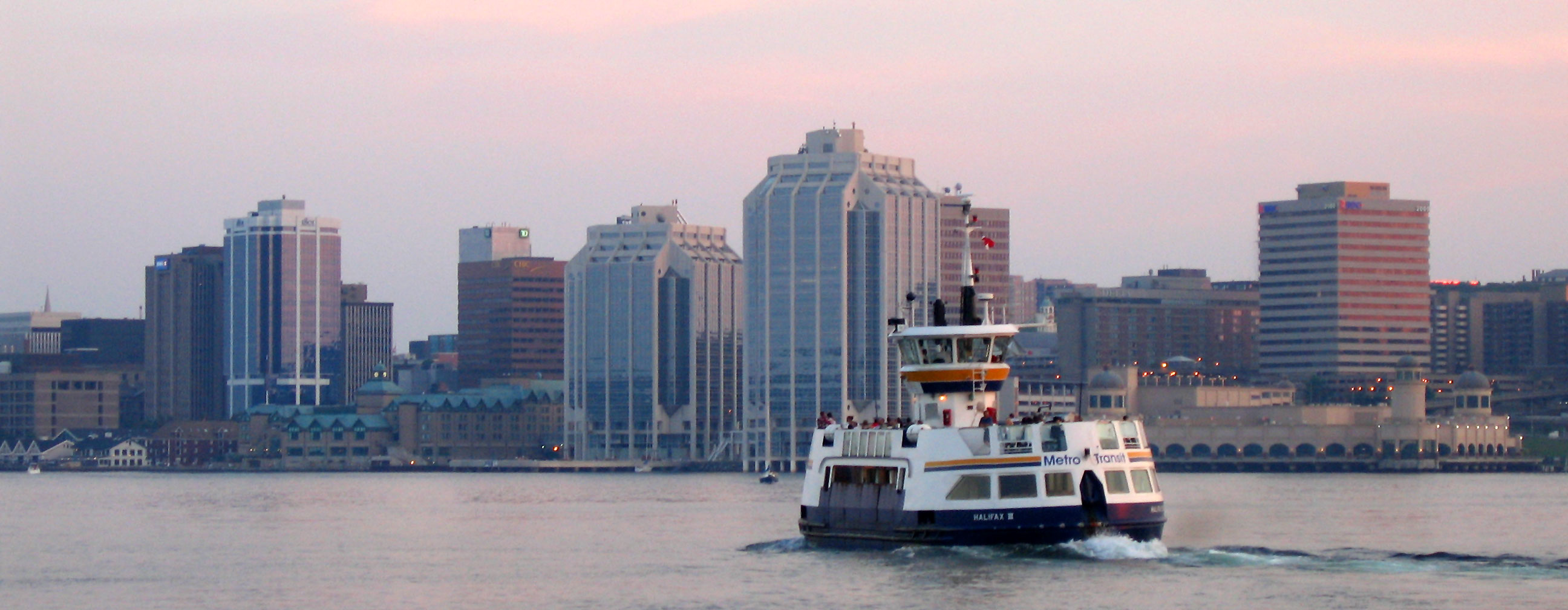 Halifax skyline from Dartmouth, NS